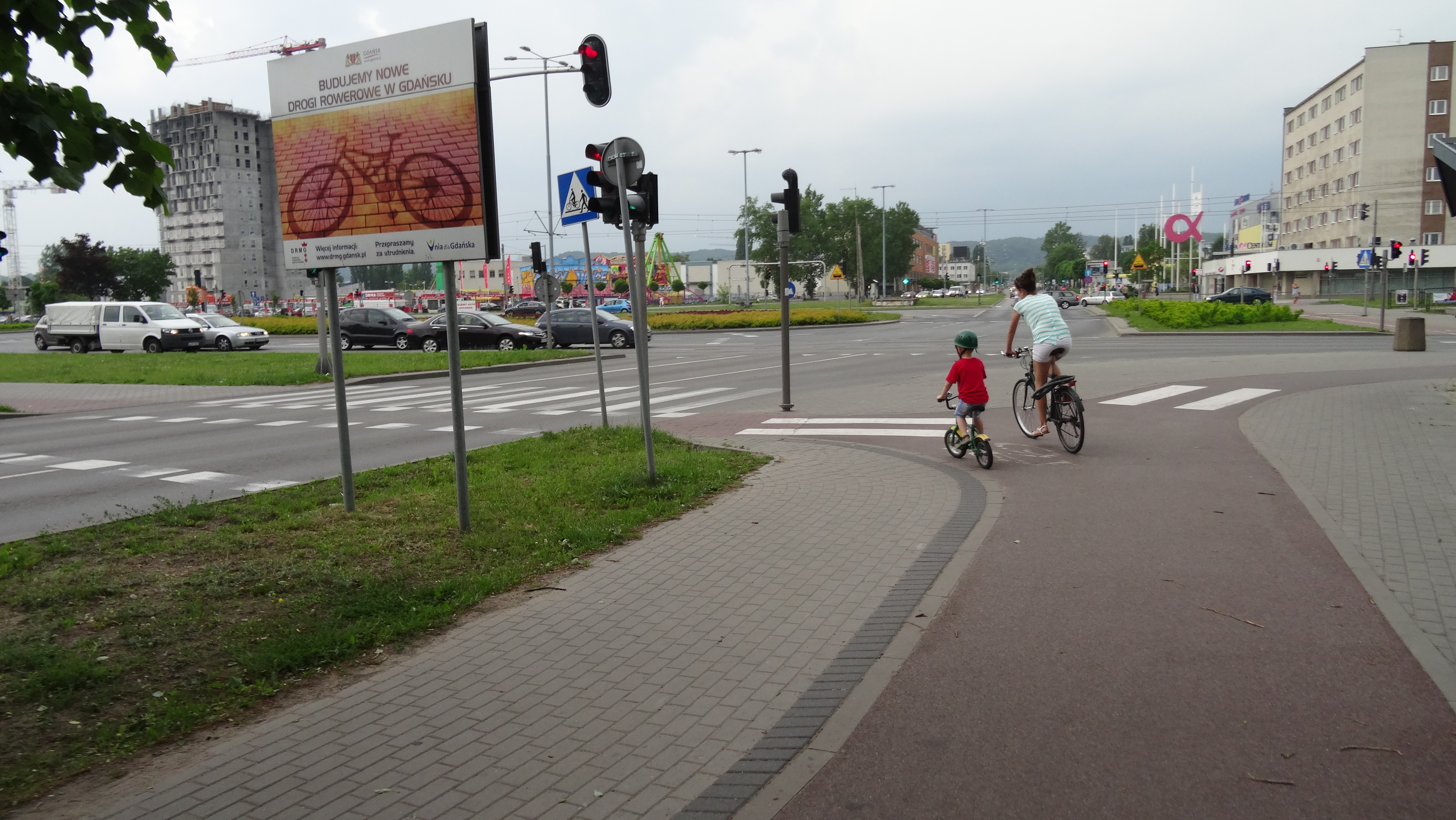 Bicycle path in Gdańsk (Kolobrzeska Str./Rzeczypospolitej Ave.)